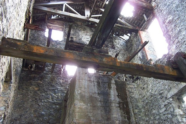 Inside the Klondyke Lead Mine Mill. This is an inside view of the Klondyke lead mine mill ruin at grid reference SH 76500 62157.